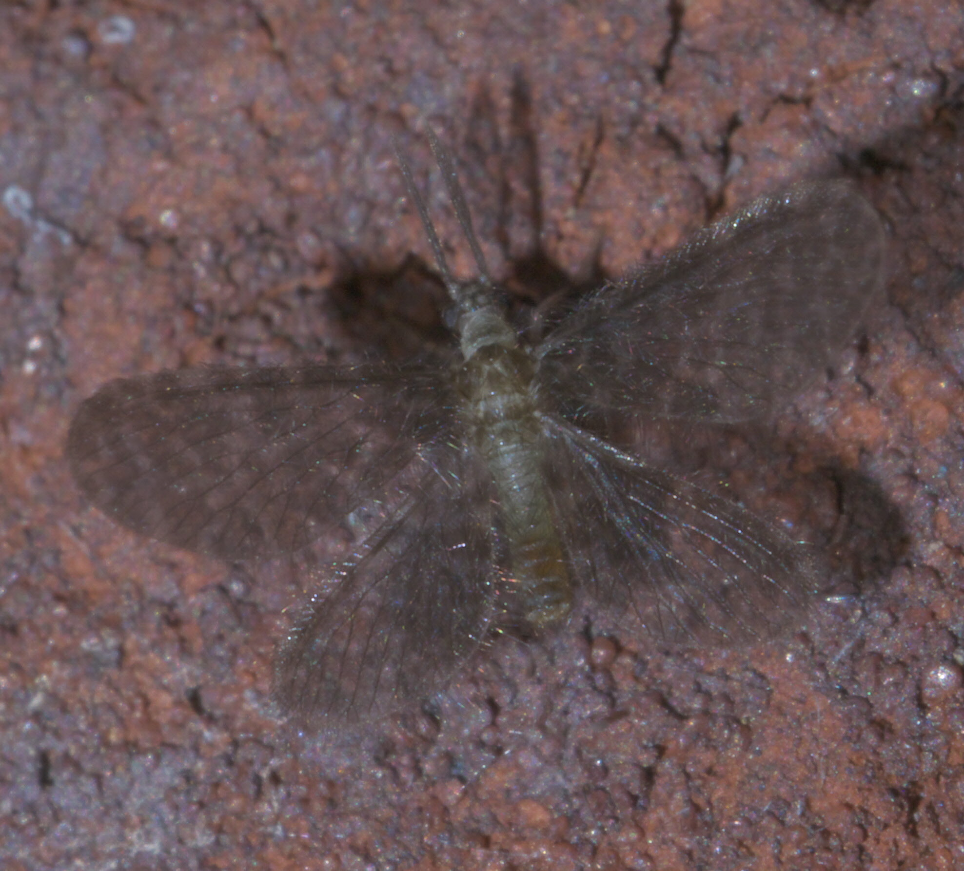 Nallachius americanus, Family: Pleasing Lacewings, ID Confidence: 87